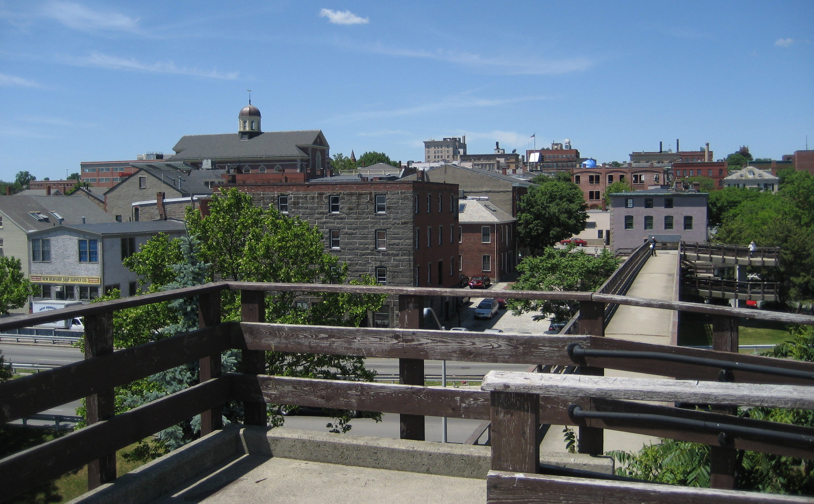 New Bedford, Massachusetts: View of old town from harbor observation tower, with pedestrial walkway across hightway visible.